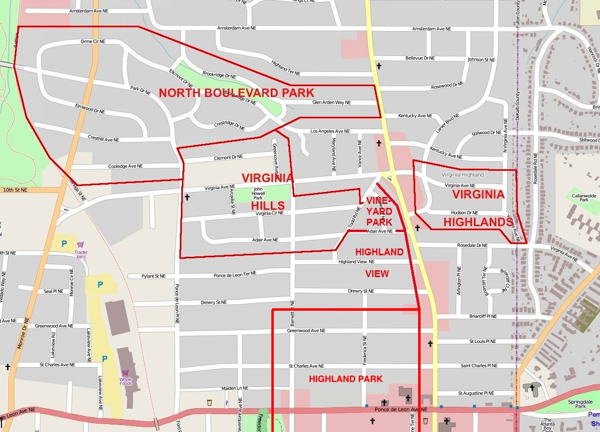 Map of some of the original subdivisions of the Virginia Highland neighborhood of Atlanta, Georgia